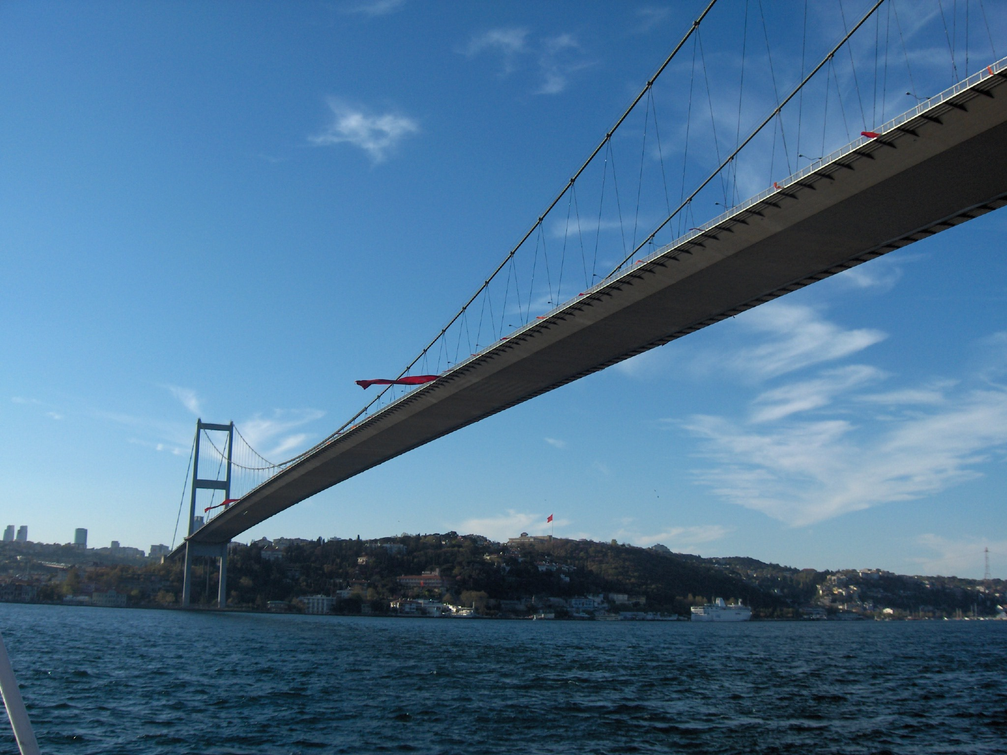 a bridge in Istanbul, Turkey: it is not the Fatih Sultan Mehmet Bridge → [1]